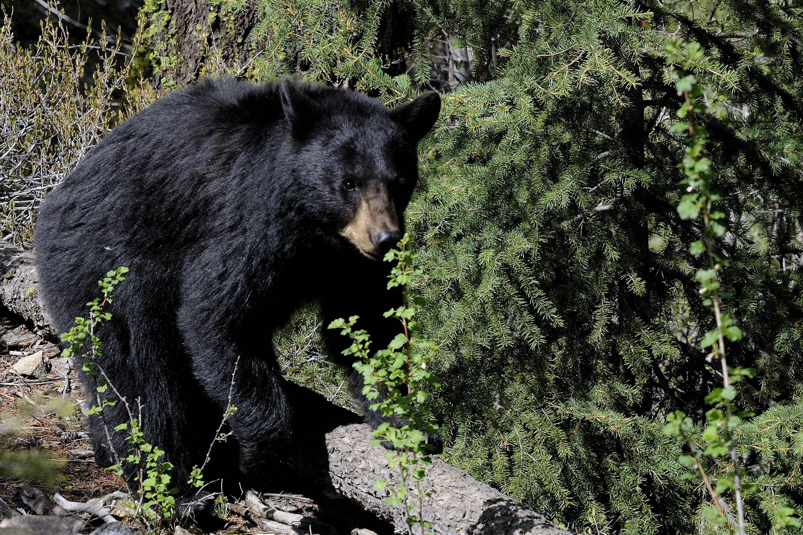 American black bear (Ursus americanus) Calcite Springs Overlook Yellowstone National Park